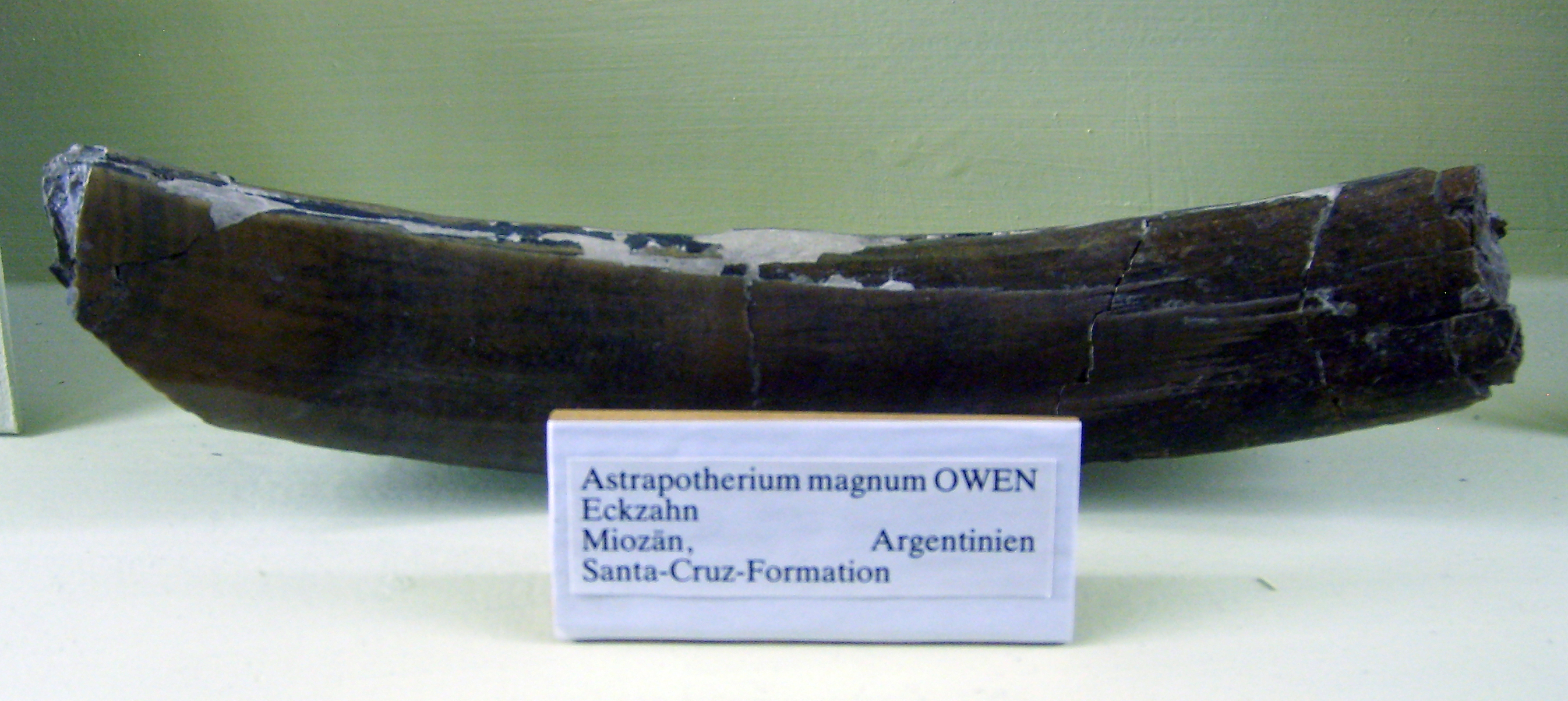 Astrapotherium magnum canine tooth at the Museum für Naturkunde, Berlin.